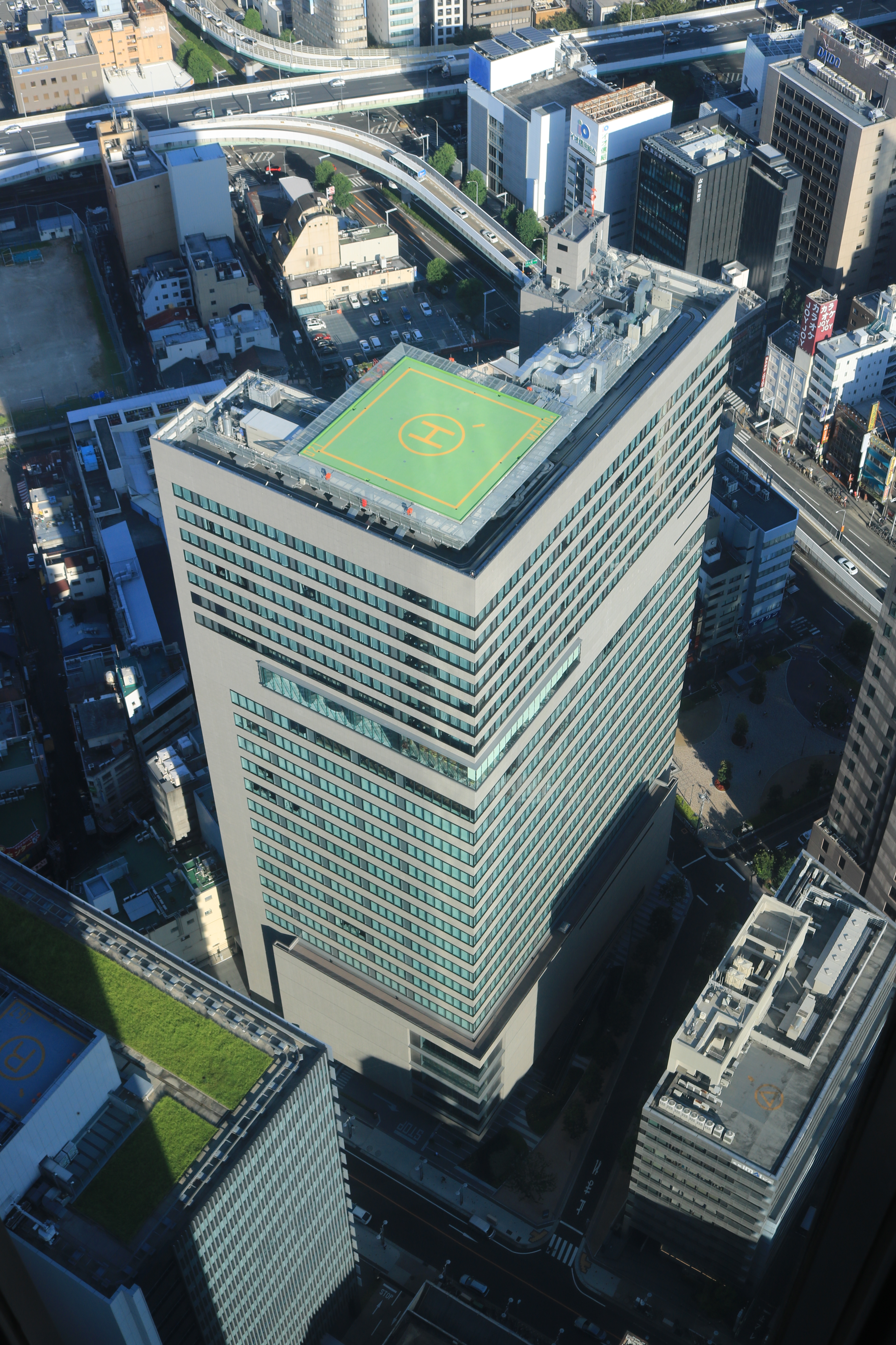 Symphony Toyota Building from Midland Square in Nakamura-ku, Nagoya, Aichi Prefecture, Japan.